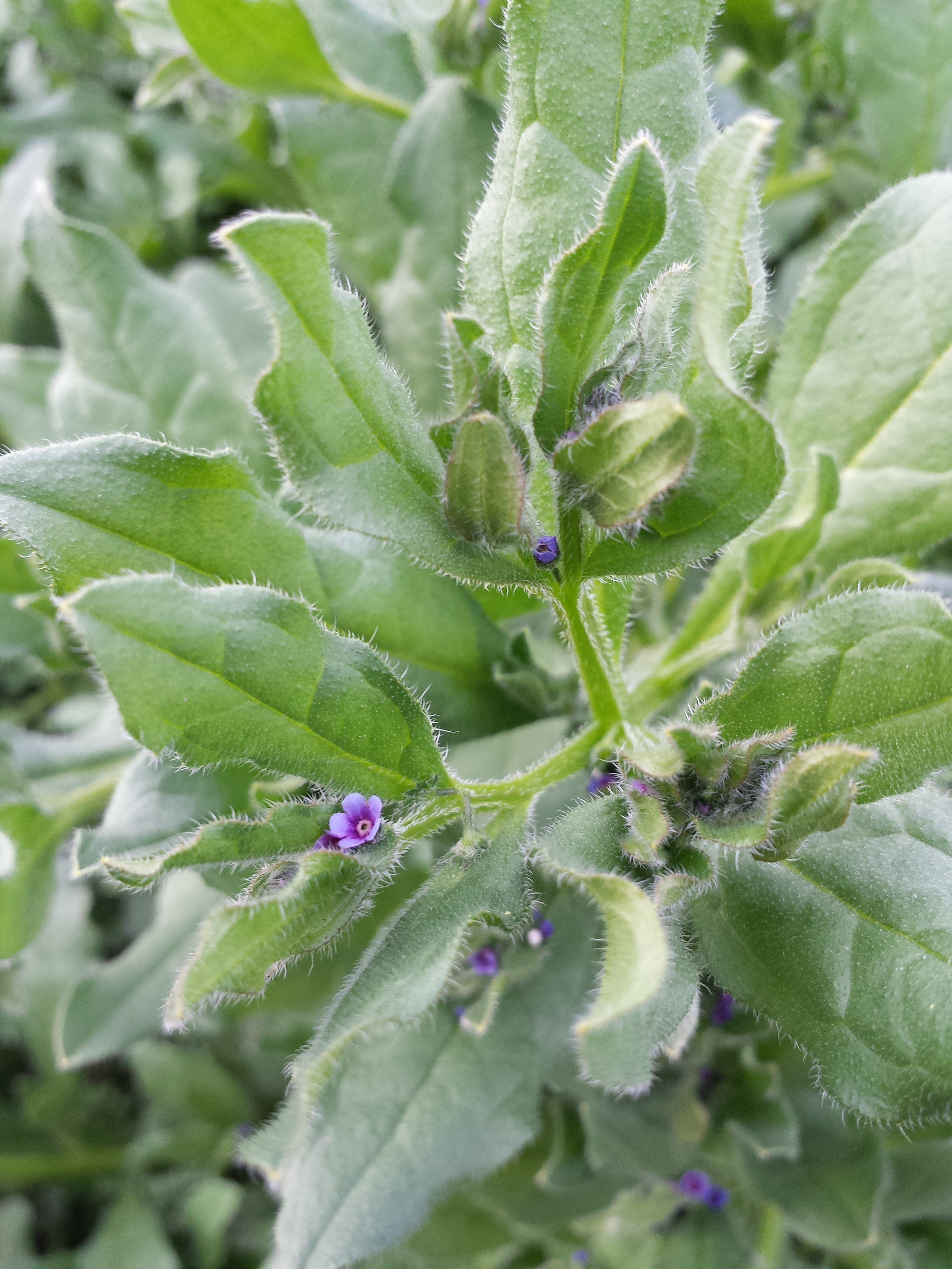 Habitus Taxon: Asperugo procumbens (sensu Fischer et al. EfÖLS 2008) Location: Donaufeld, Vienna-Floridsdorf - ca. 170 m a.s.l. Habitat: grain field